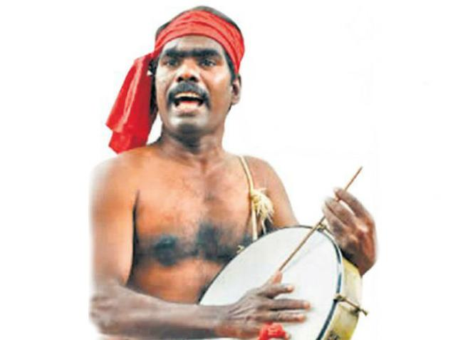 kovan image